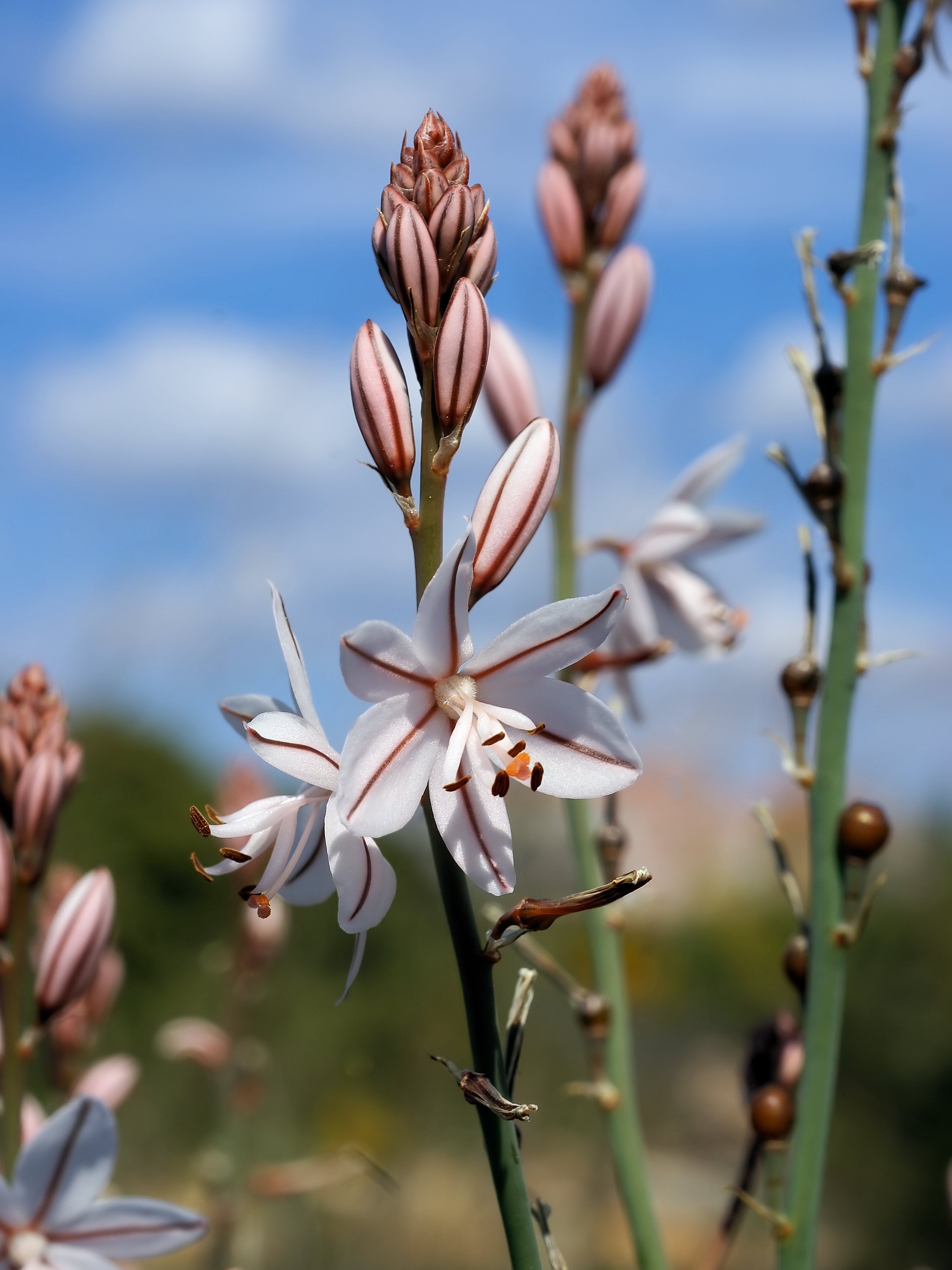 near el Perelló, Catalonia, Spain